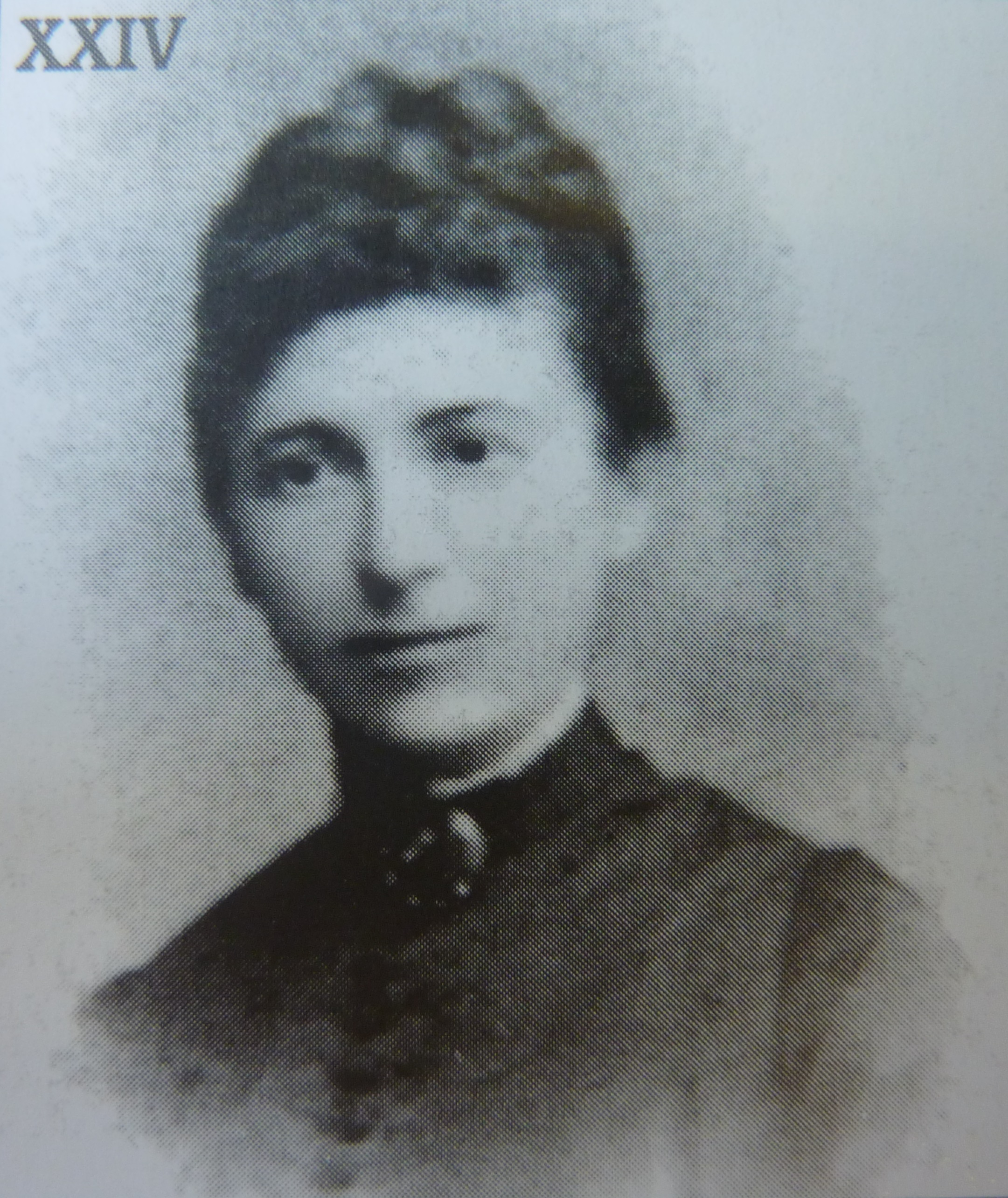 Karla Absolonová (Bufková), portrait